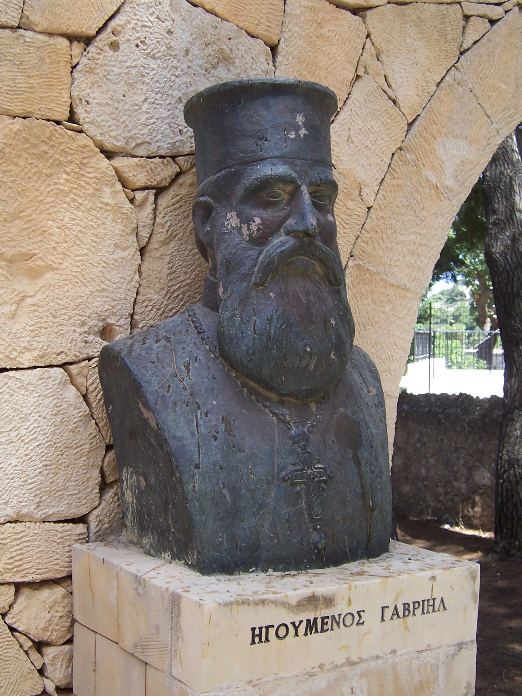 Gabriel Marinakis